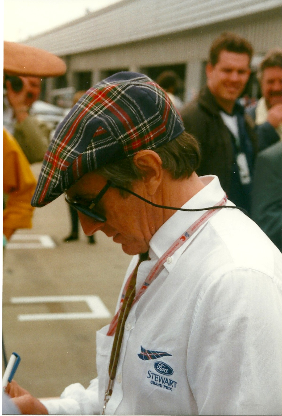 British Grand Prix 1998